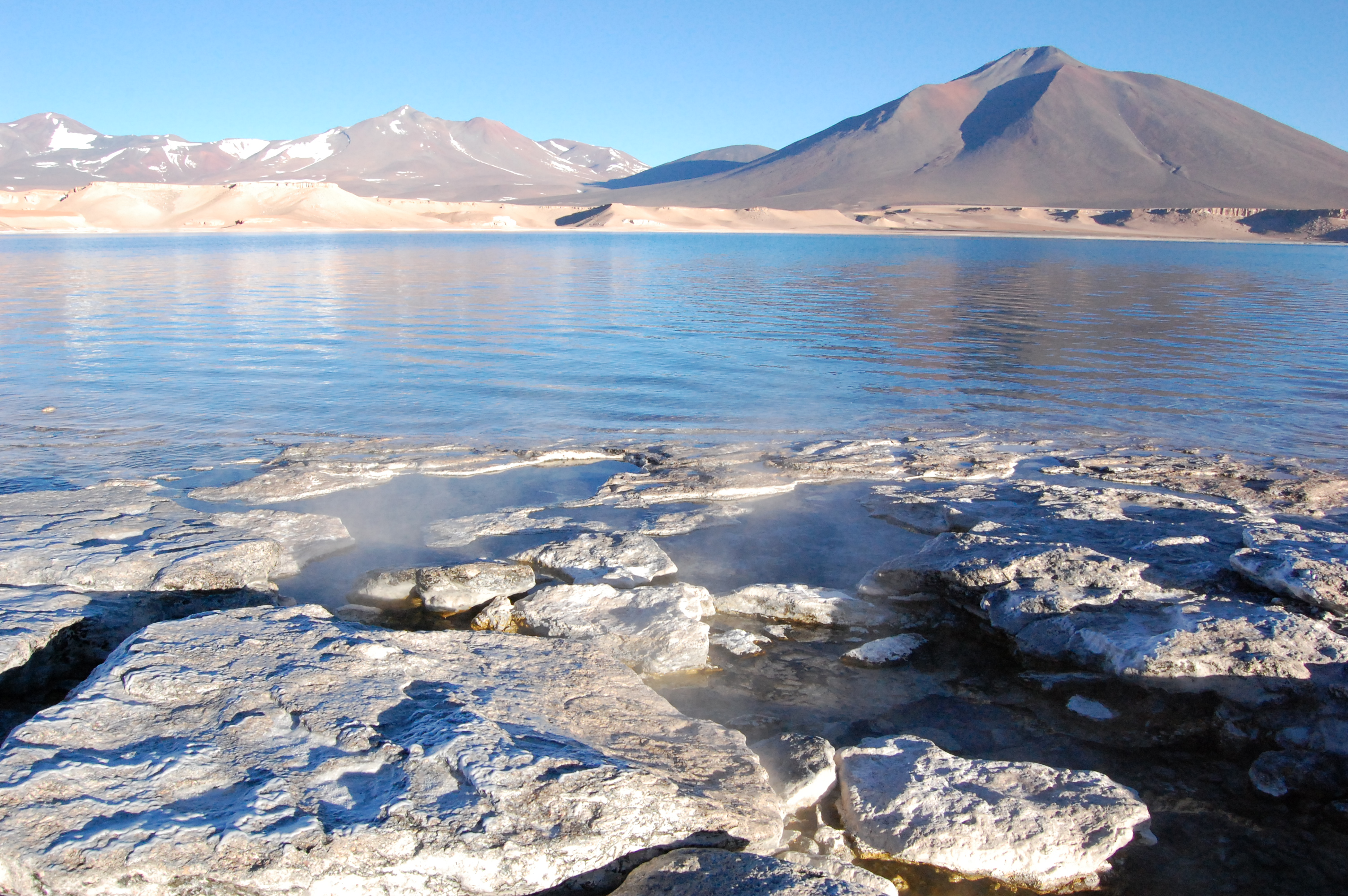 View of the Laguna Verde from the south cost.